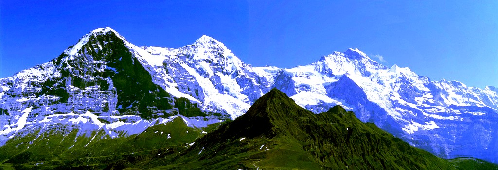 Jungfrau